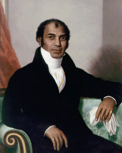 Sake Dean Mahomed (1759–1851), portrait from Royal Pavilion & Museums, Brighton & Hove